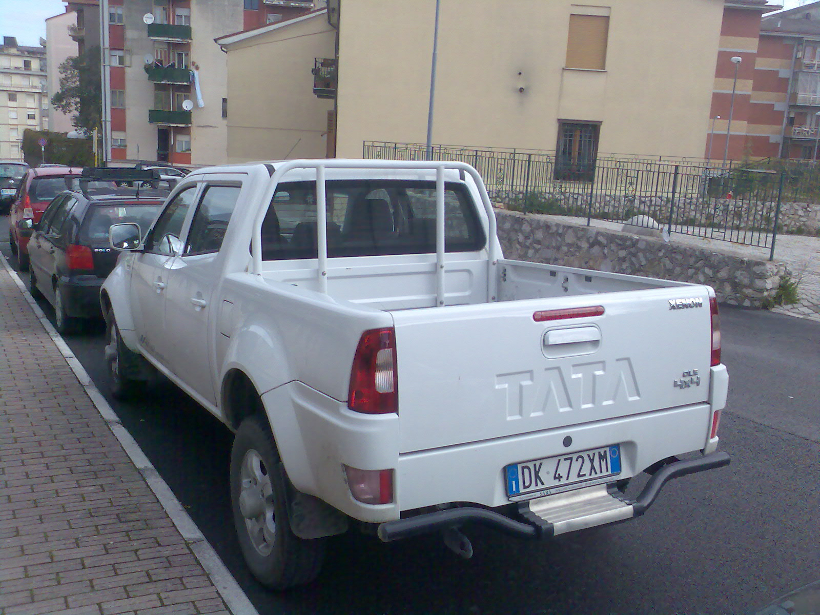 a white Tata xenon